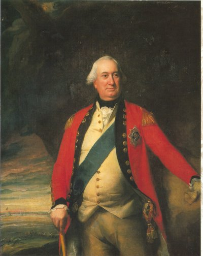 Charles Cornwallis, First Marquis of Cornwallis (1738-1805)